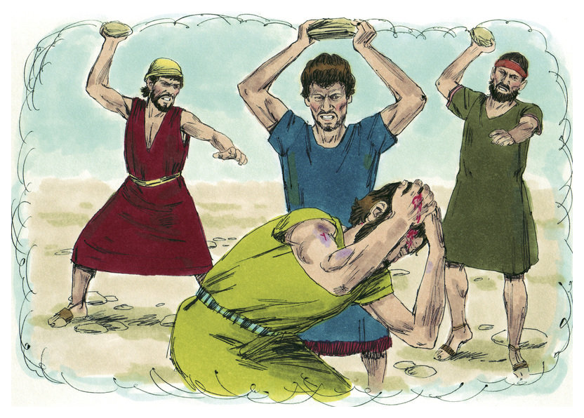 Biblical illustration of Book of Deuteronomy Chapter 14